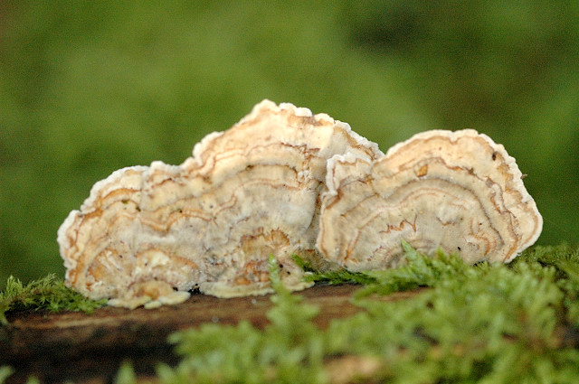 Trametes versicolor from Commanster, Belgium. The determination of the species shown in this picture has been verified.